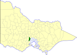 Location of the former Shire of Bacchus Marsh within Victoria.